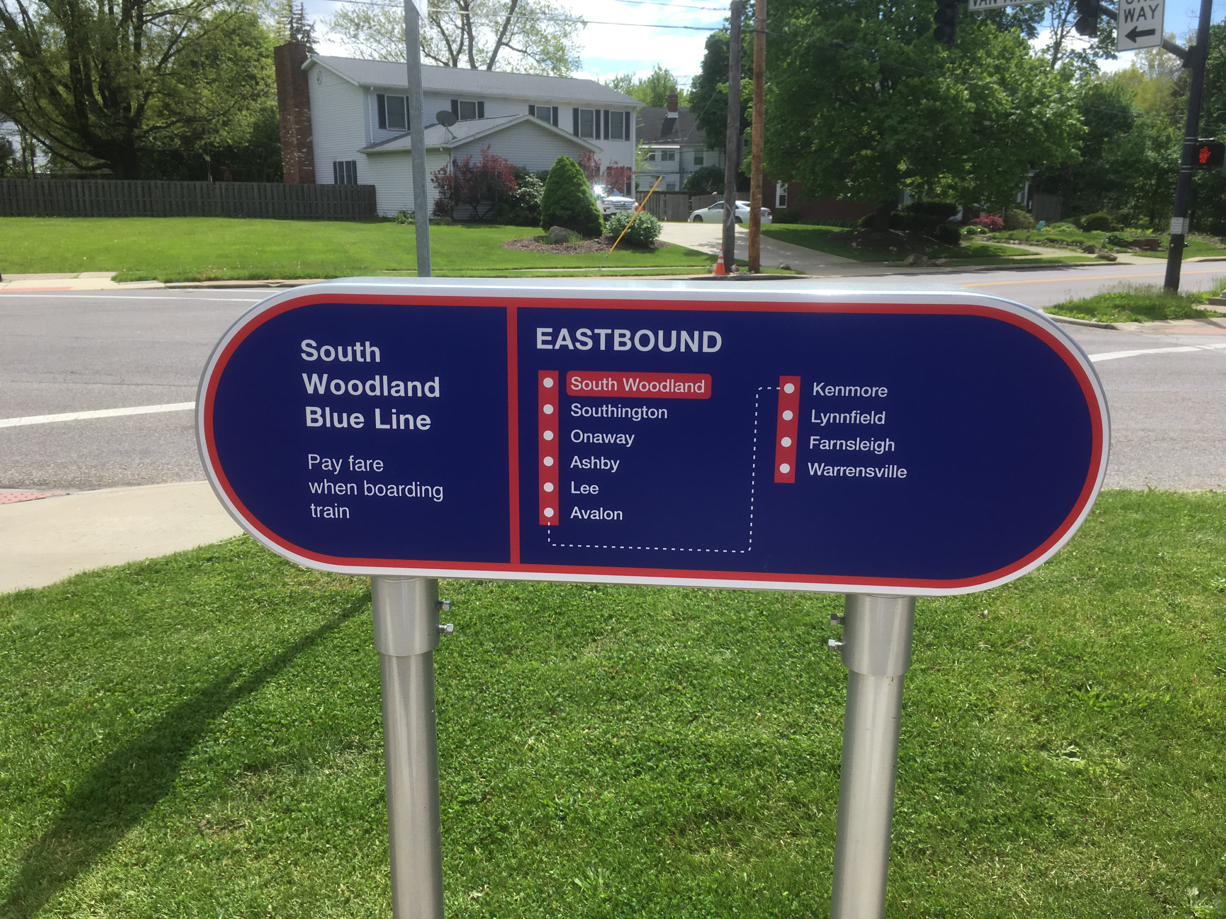 South Woodland 2020 sign